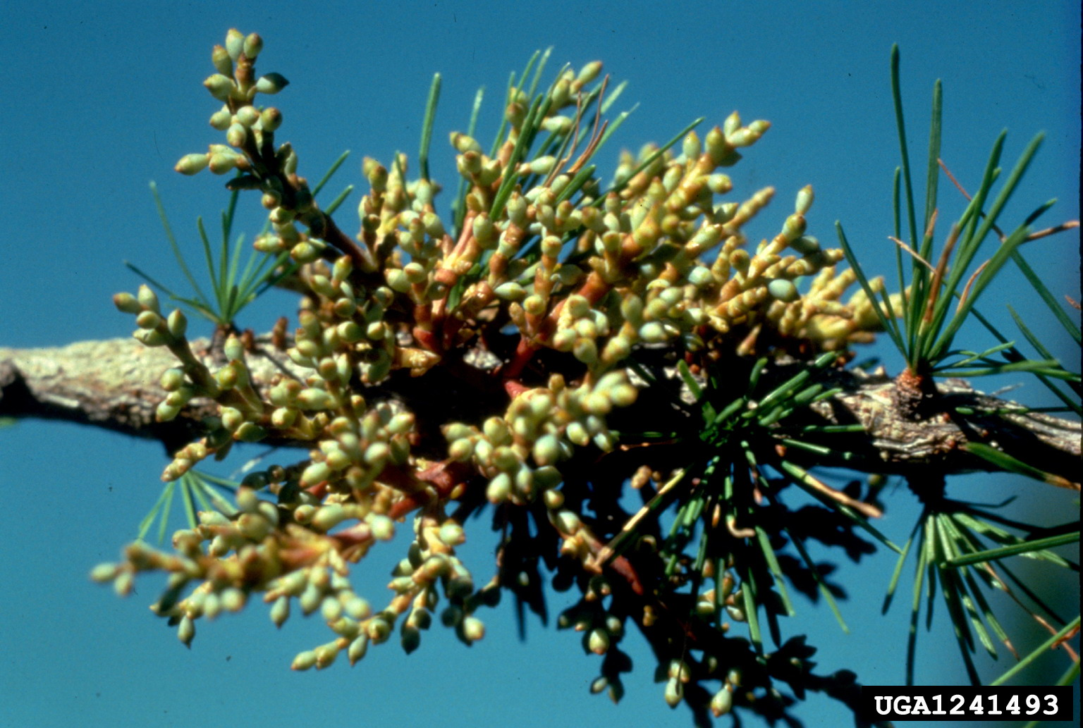 larch dwarf mistletoe (Arceuthobium laricis) infections cause spindle-shaped swellings on branches and small stems. Larch dwarf mistletoe shoots begin to sprout in the spring eventually forming clusters of shoots as seen in this plant.